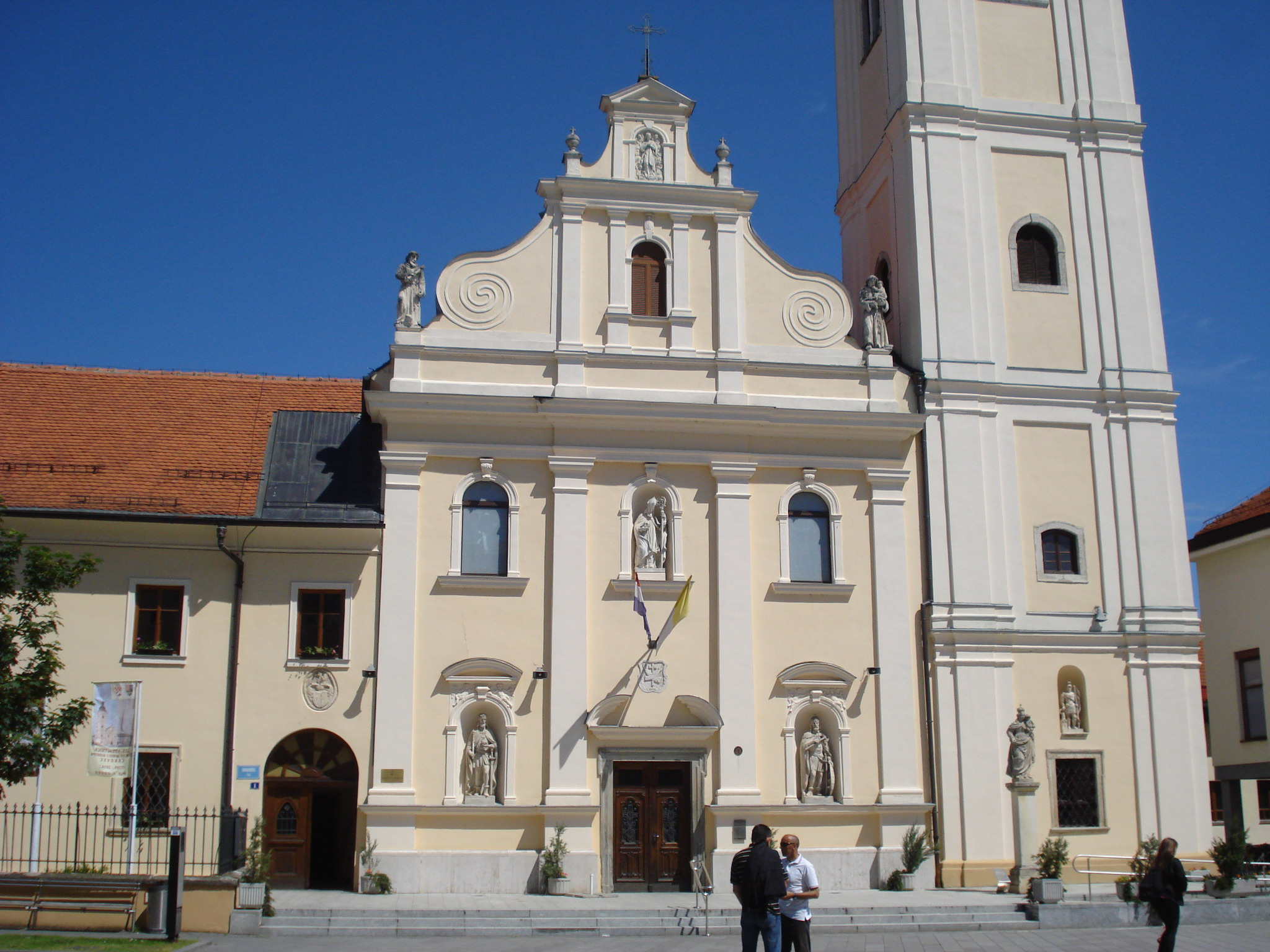 Frontage of St. Nicholas Church, Čakovec - south view